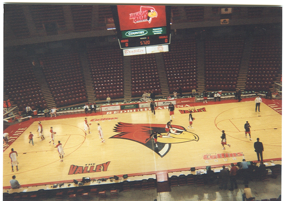 I took this picture February 17, 2007 before a game between the Illinois State Redbirds & the Ball State Cardinals.